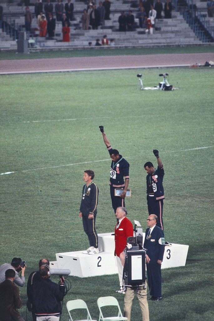 American sprinters Tommie Smith and John Carlos, along with Australian Peter Norman, during the award ceremony of the 200 m race at the Mexican Olympic games. During the awards ceremony, Smith (center) and Carlos protested against racial discrimination: they went barefoot on the podium and listened to their anthem bowing their heads and raising a fist with a black glove. Mexico City, Mexico, 1968.